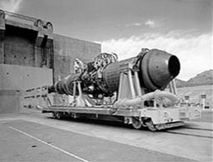 USAF image of the "Tory-IIC" nuclear ramjet engine, prior to testing on Jackass Flats, at the Nevada Proving Ground. For a sense of scale, note the two men in white contamination suits standing atop the intake manifold.